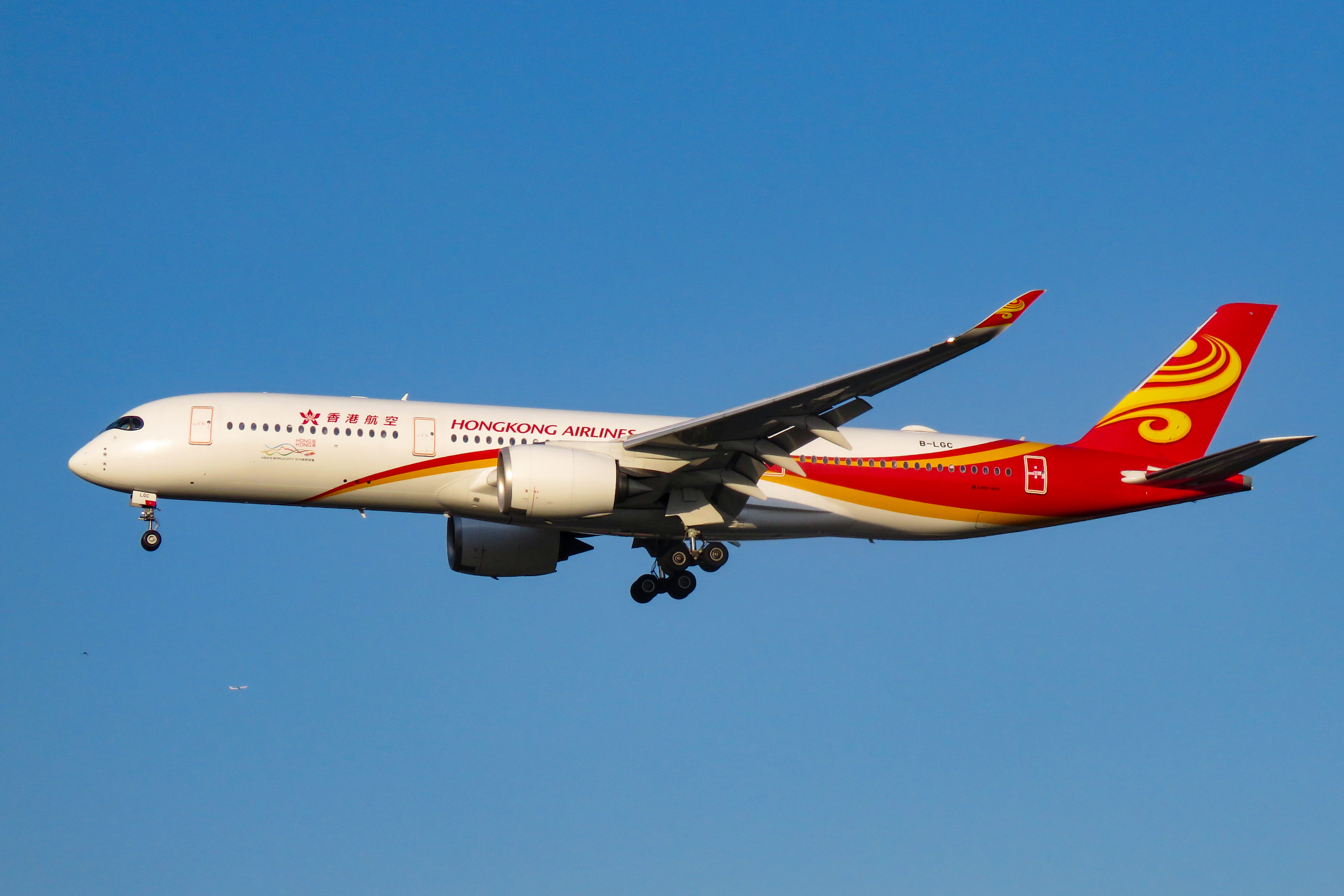 Bauhinia 312 from Hong Kong, landed on 01 today.